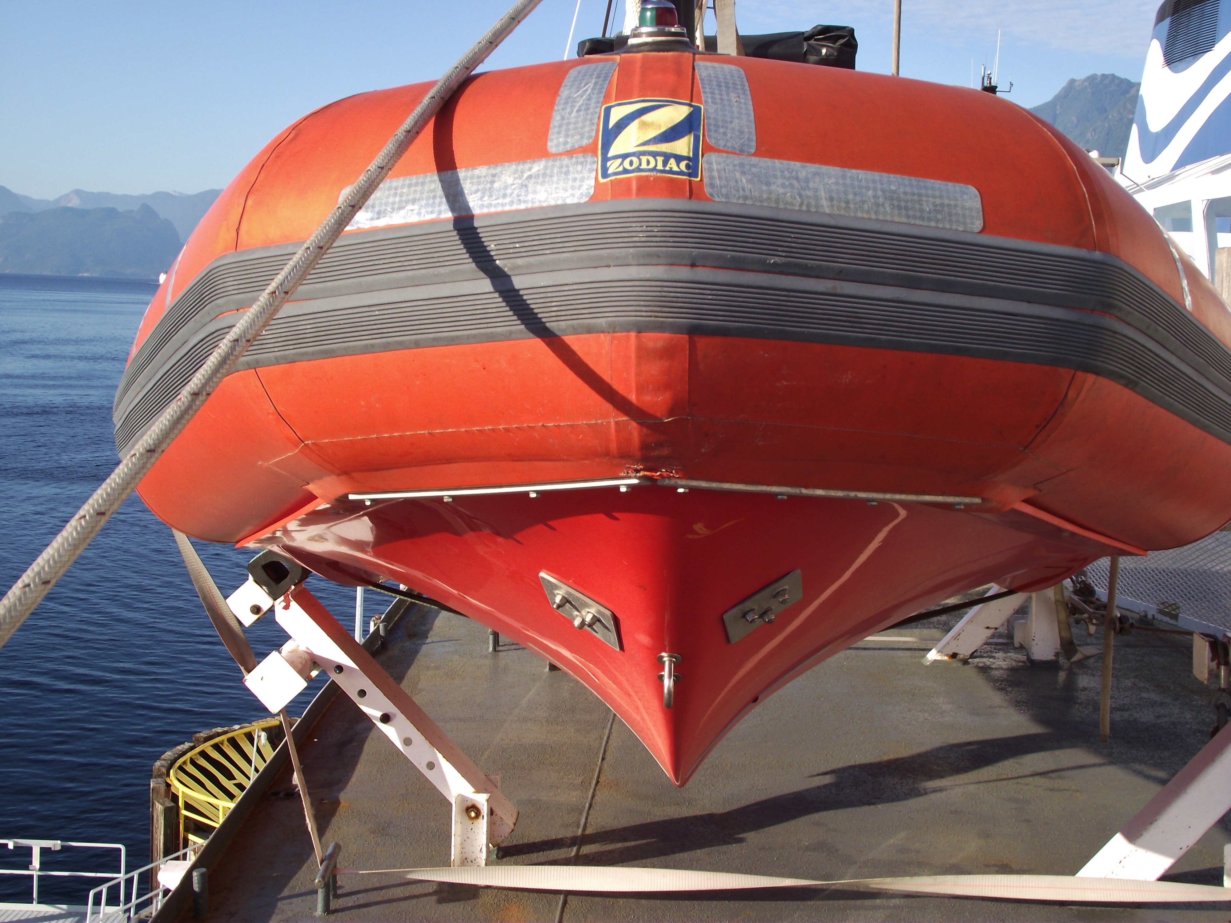 Zodiac RHIB prepared as an emergency boat on a ferry in British Columbia, Canada